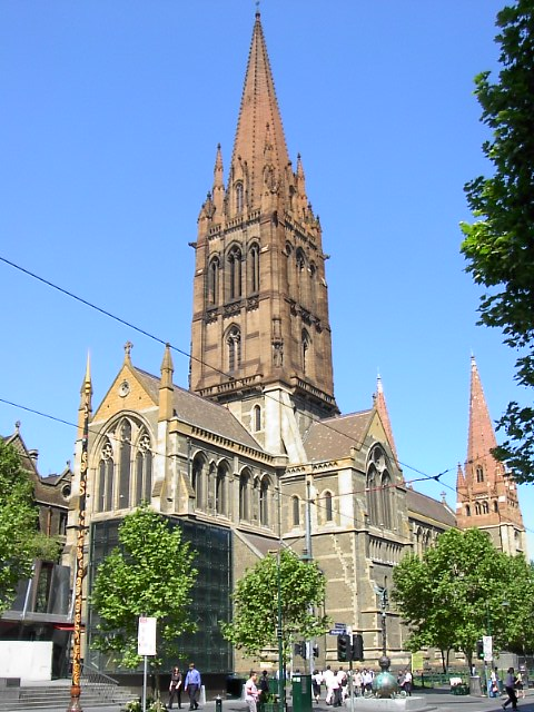 this photo was taken by me, User:Adam Carr, and is released by me into the public domain